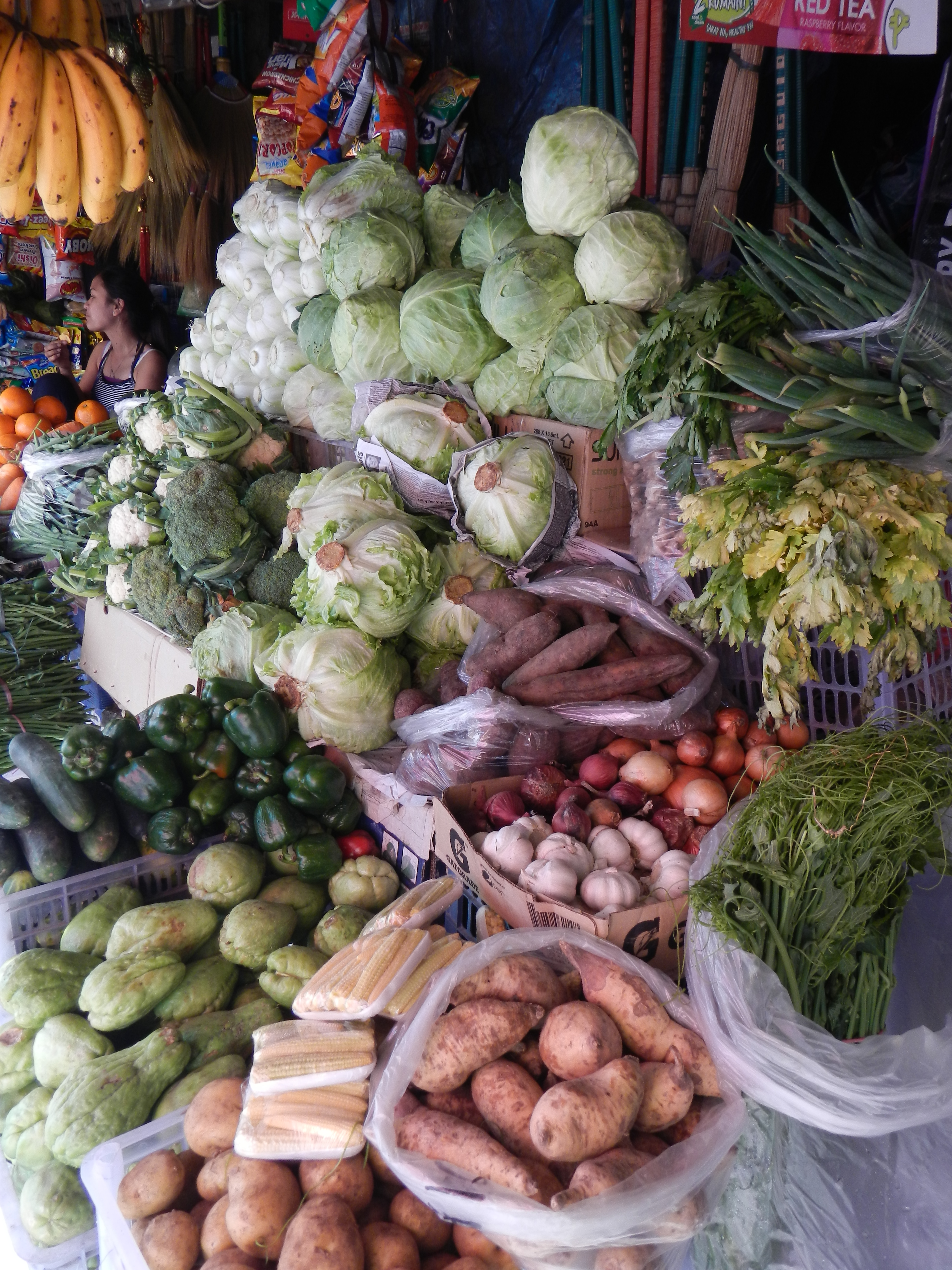 This is part of photos of the beautiful Town Proper of Sablan, Benguet Benguet province (Welcome monument, along Naguillan road, gateway to Baguio City; inclduing the scenery, panoramics, landscapes of Cordillera Central (Luzon) mountain ranges, with only one bank, the Benguet Center Bank, Inc., the fruit stands and Sablan Elementary School beside the Bank and Church).